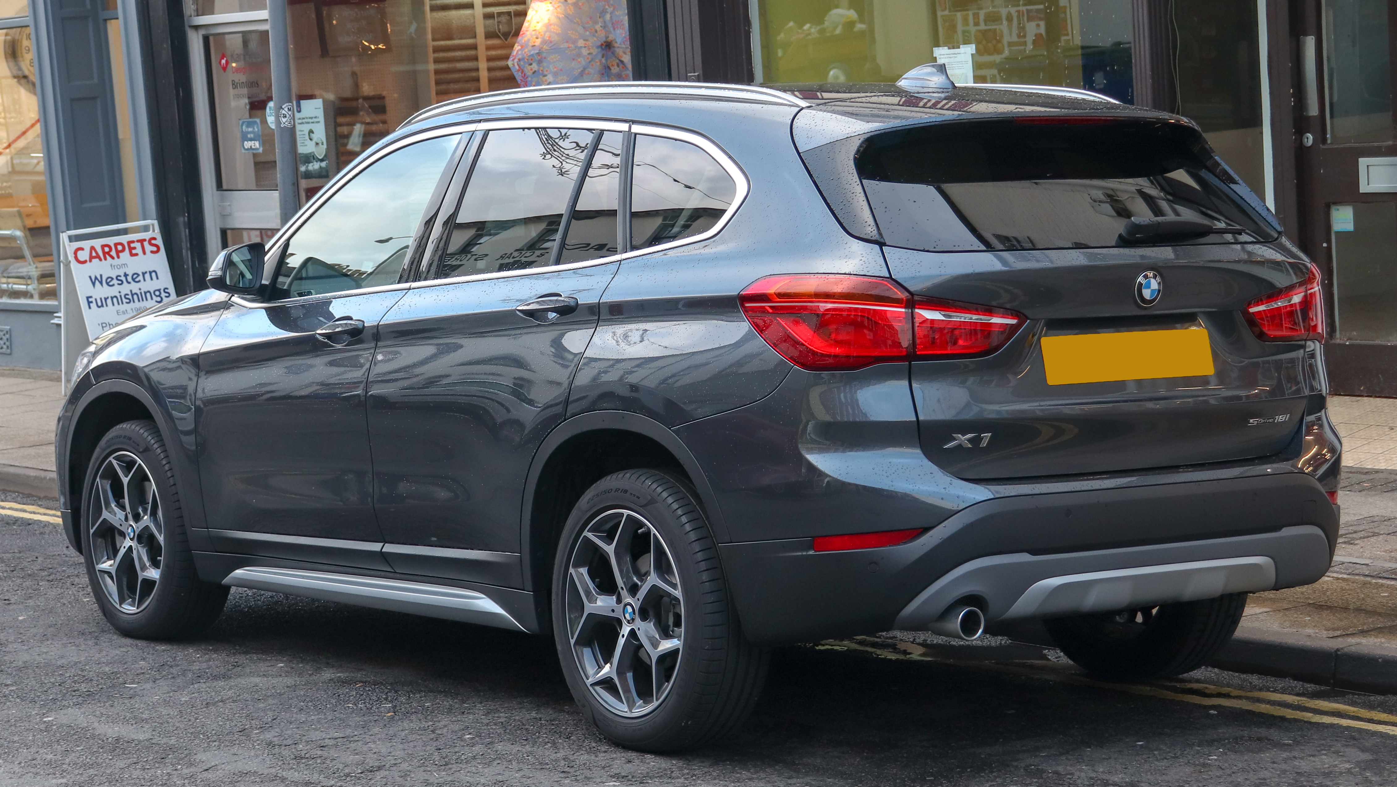 2018 BMW X1 sDrive18i xLine 1.5 Rear Taken in Leamington Spa